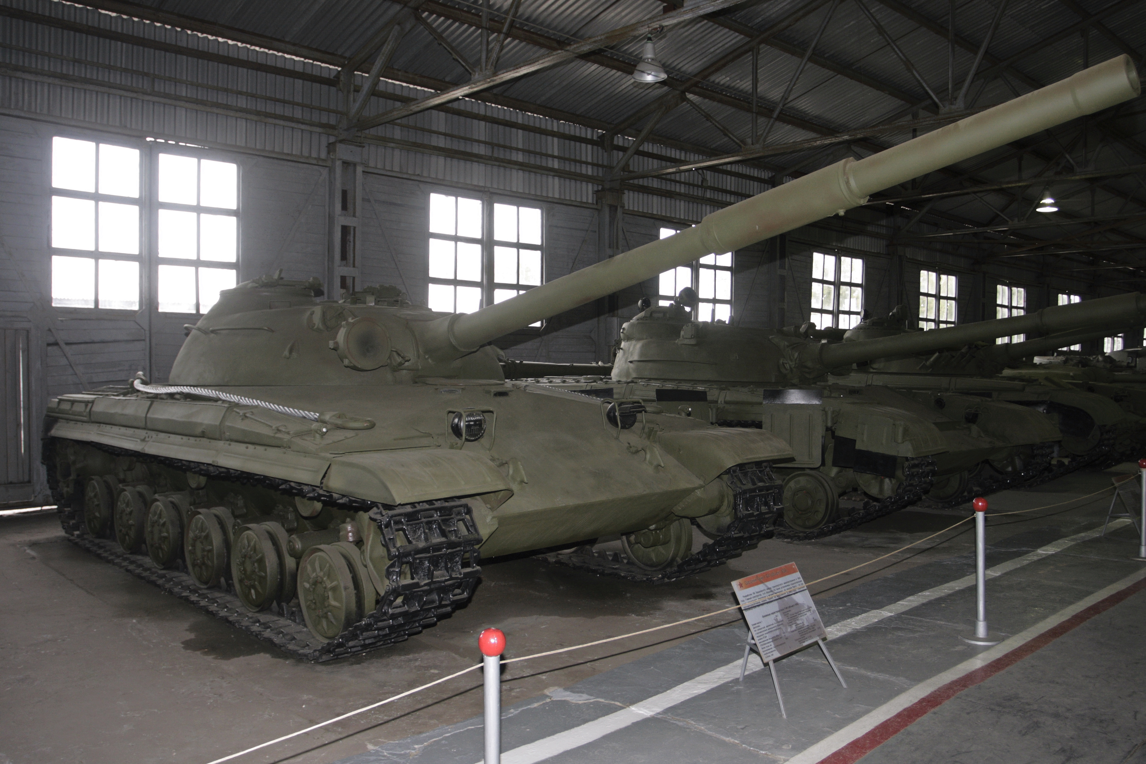 Object 432 (T-64) in Kubinka Tank Museum